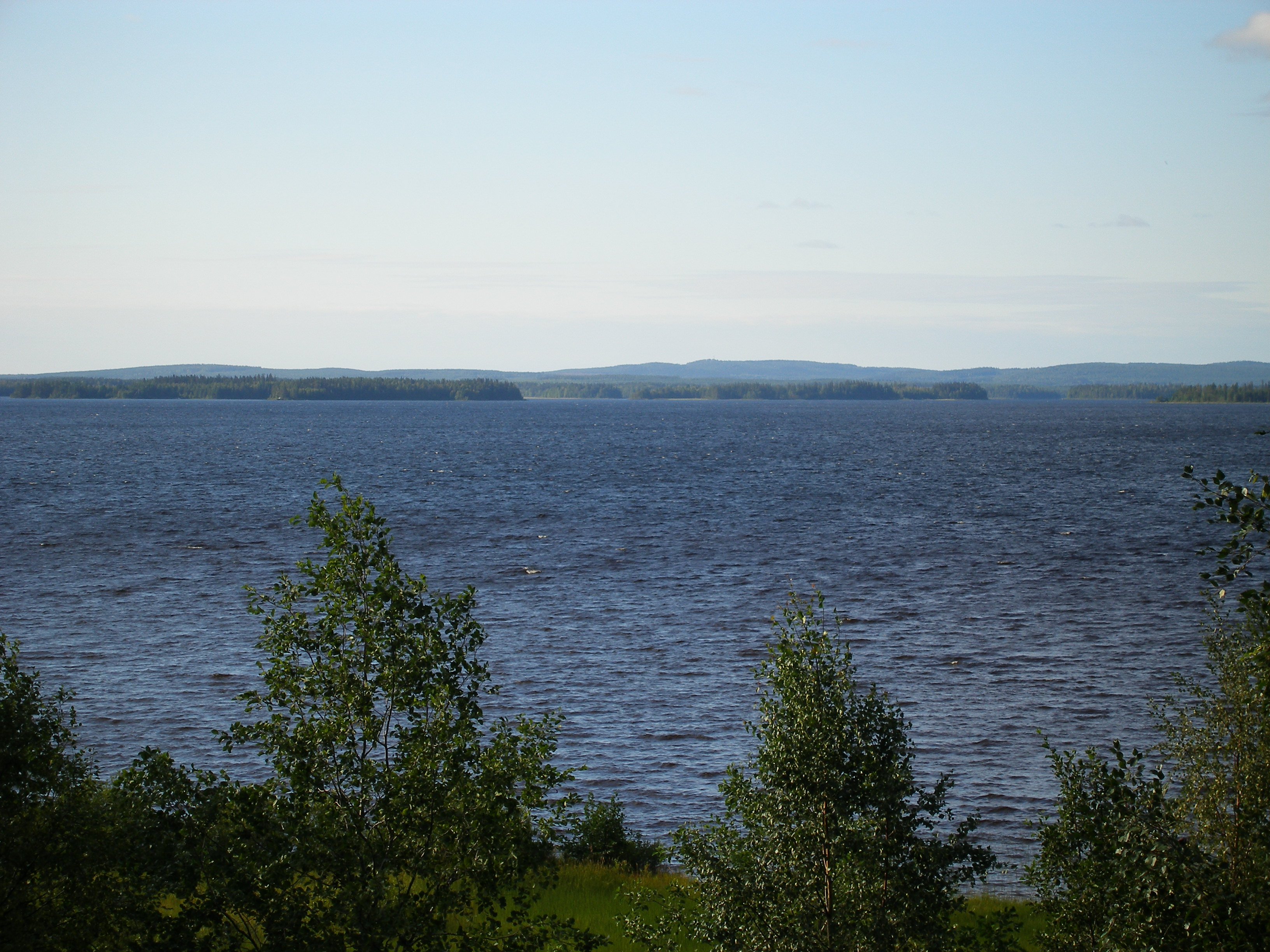 Lake Oulujärvi seen from Paltaniemi, Kajaani, Finland.